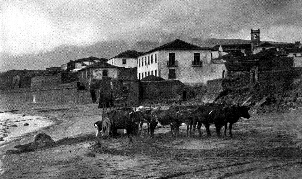 Camponeses na apanha de areia para fertilização dos campos, no ínicio do século xx, com o Quartel do Posto da Praia ao centro.